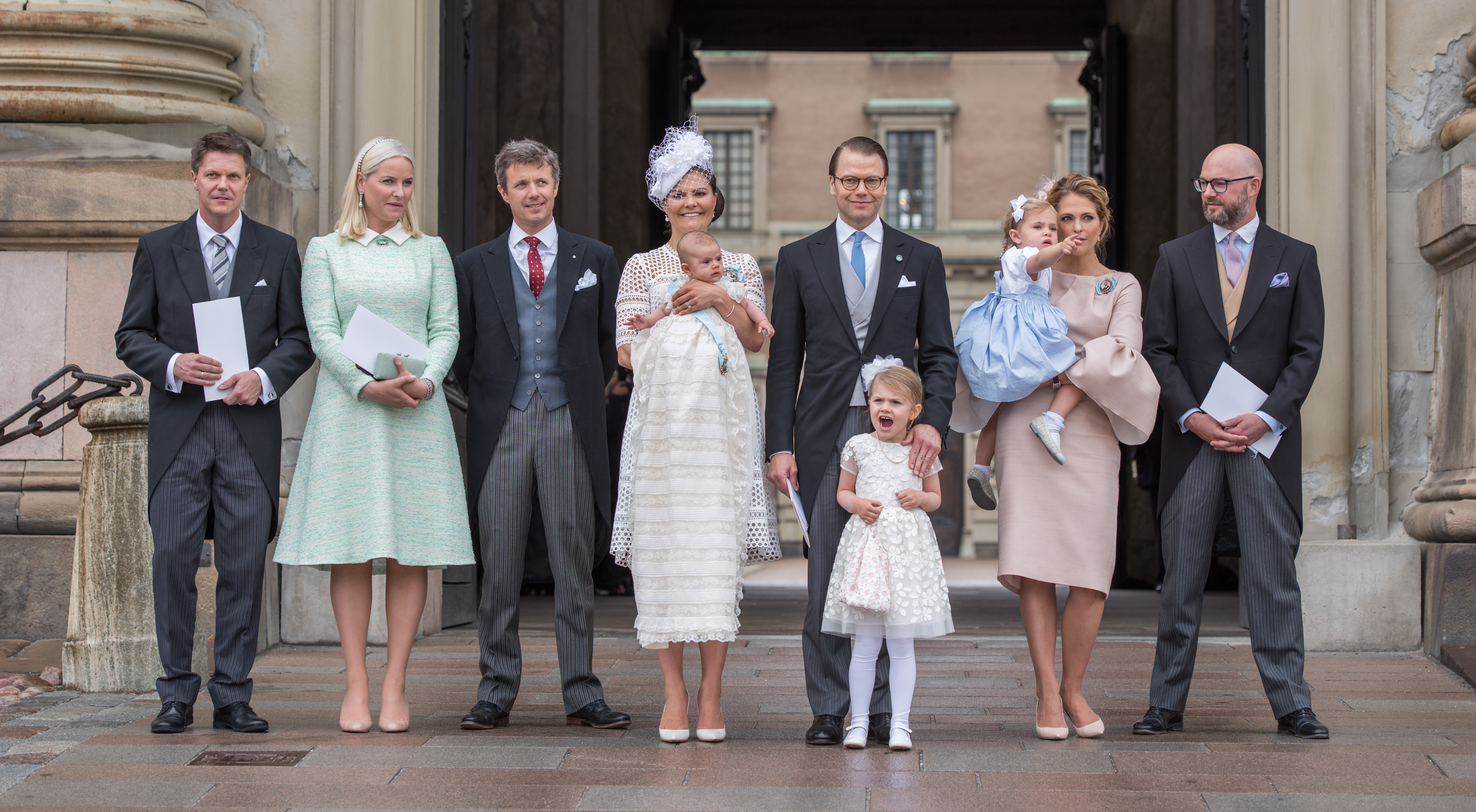 Crown Princess Victoria of Sweden with children in 2016